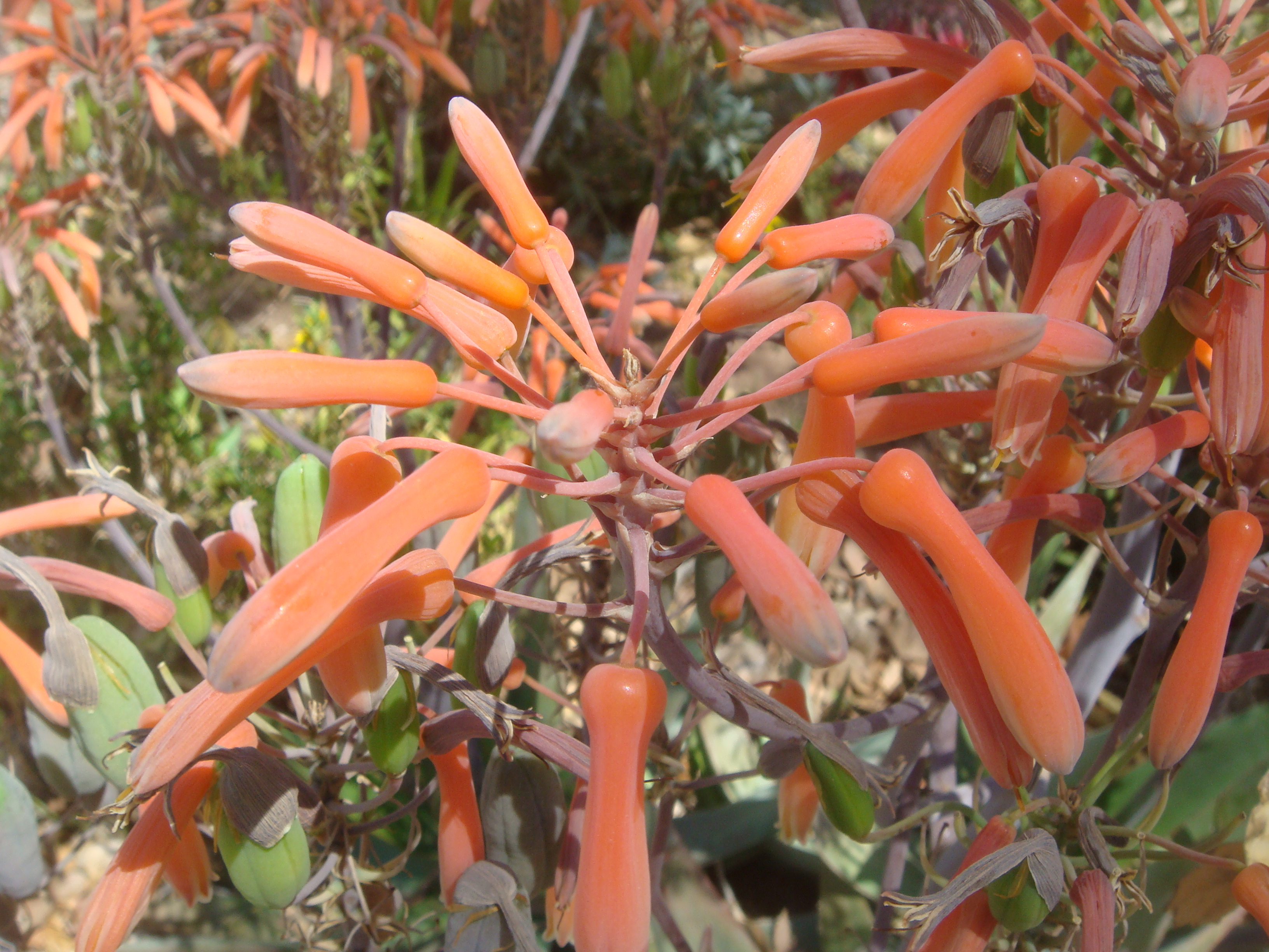 Aloe distans, cultivated, Arizona State University, Tempe, Arizona